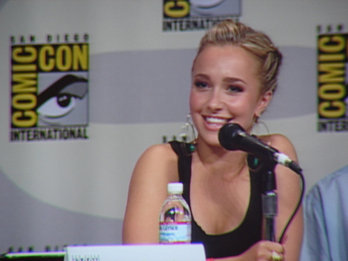 Comic-Con: Saturday, July 28th